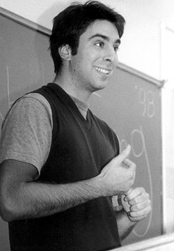 Adam Werbach speaking to high school students at the Deep Green Global Training (DGGT), a conference organized by teens for teens. DGGT was produced annually for several years by the teen-led High Schools Group of nonprofit environmental organization Bay Area Action. This photo was taken at Stanford University in Stanford, in 1998.